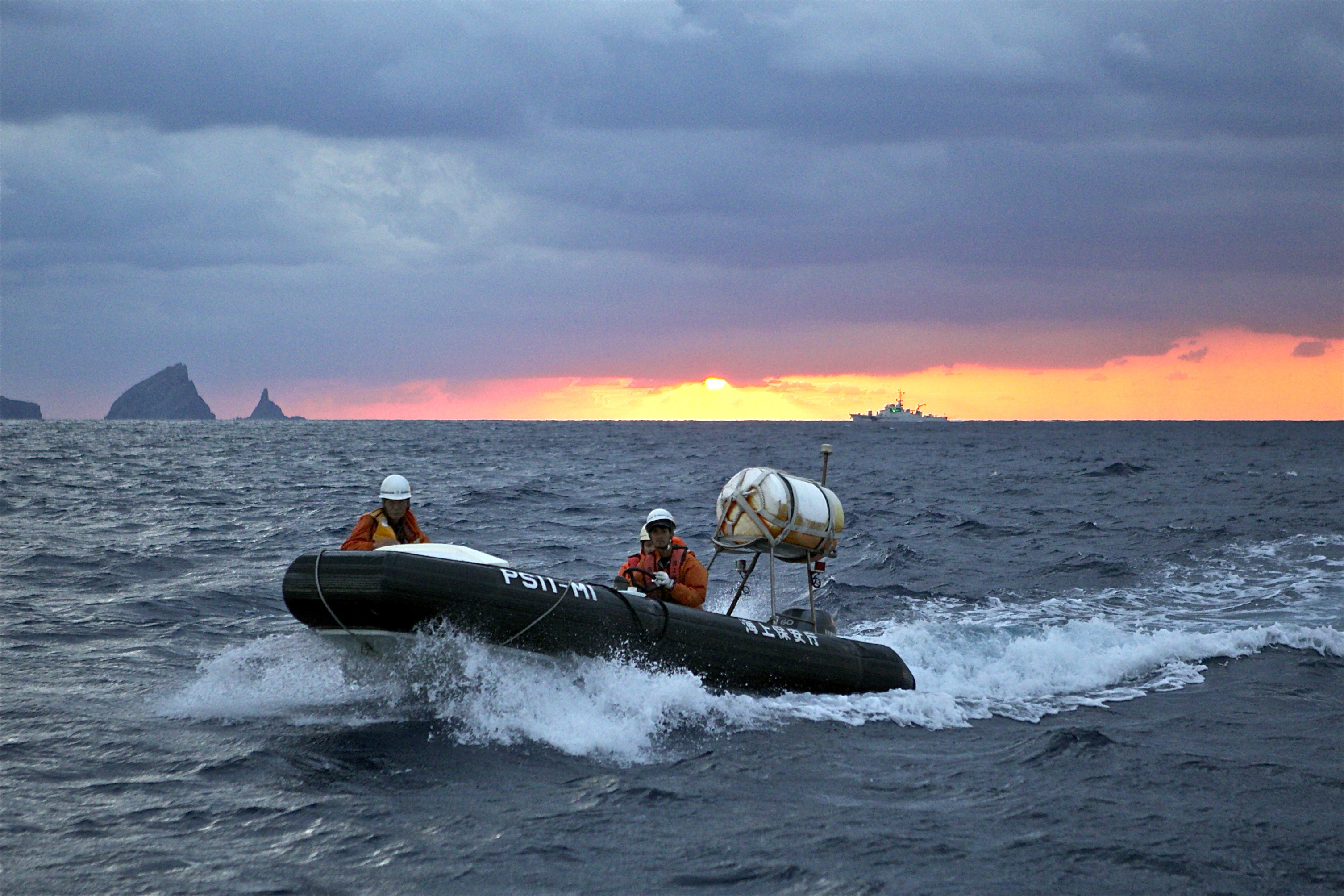 After using water cannon to turn around a flotilla of Taiwanese fishing and Coast Guard vessels on Sept. 26, 2012, the Japanese Coast Guard has shown increasingly vigilance in defending the waters off of the Senkaku/Diaoyu islands. In its territorial claim, Japan's maritime boundary is about 27 kilometres encircling the island chain.